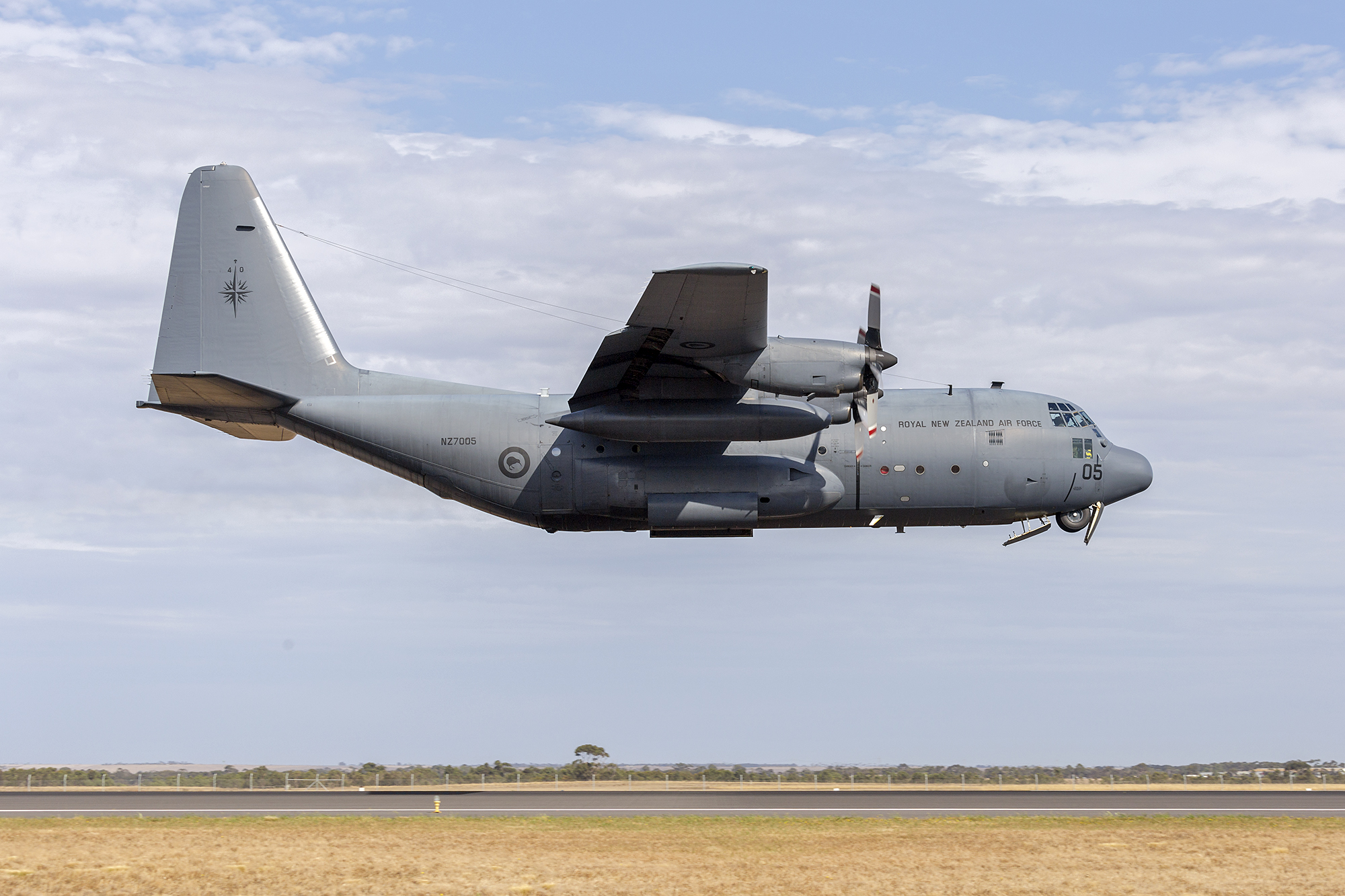 RNZAF (NZ7005) Lockheed C-130H Hercules flying display at last day of the 2019 Australian International Airshow